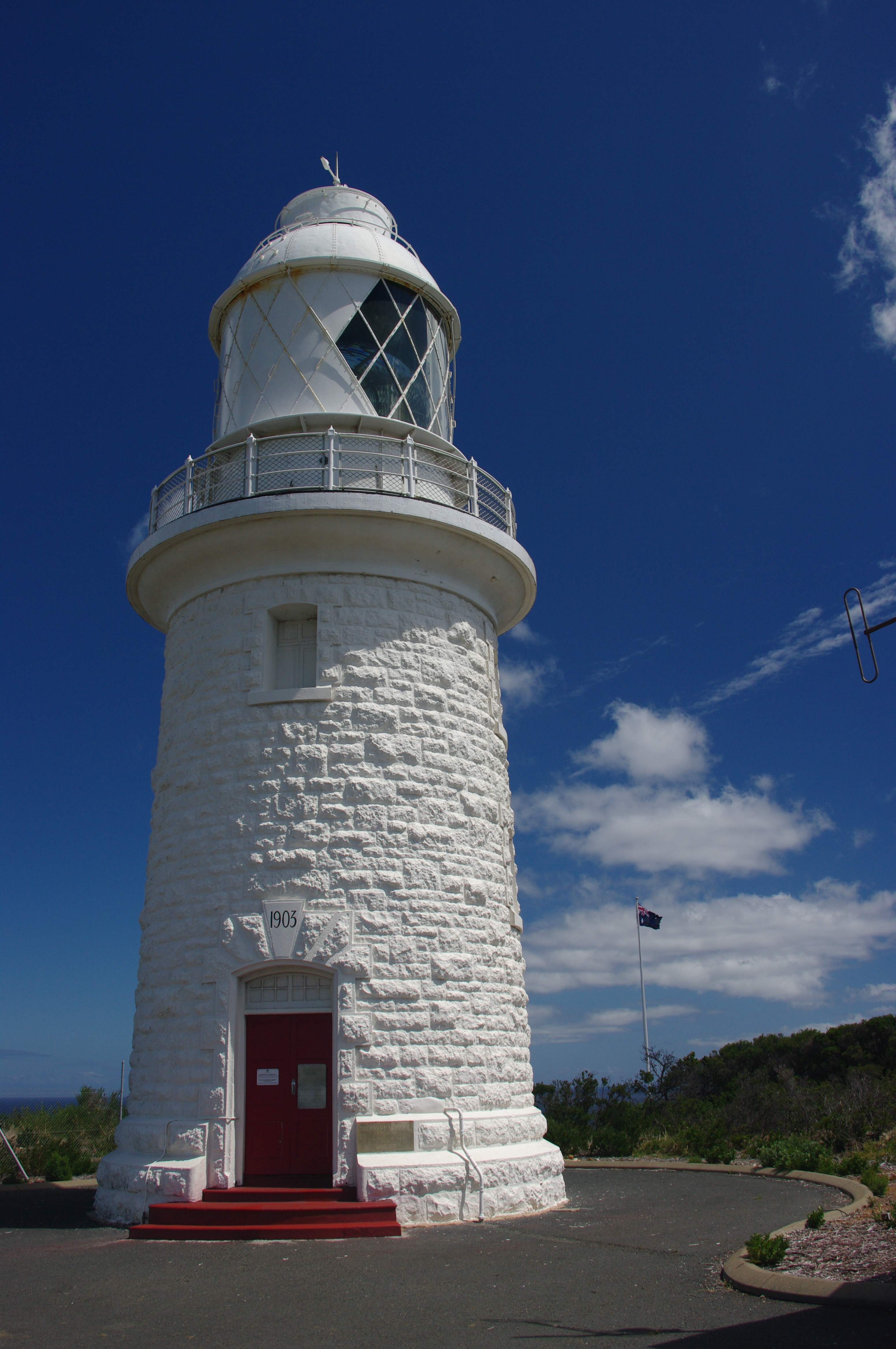 Naturaliste Lighthouse